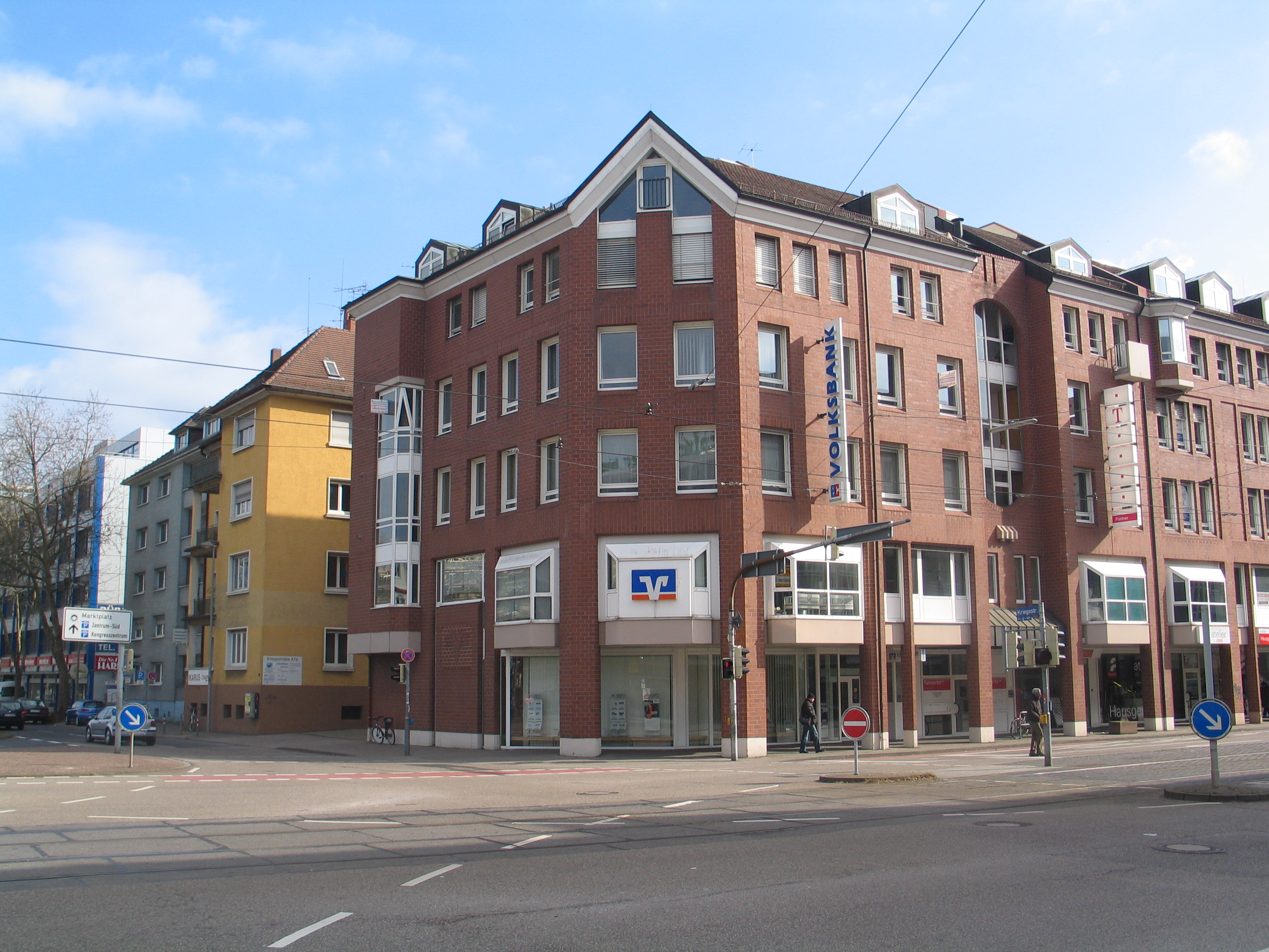 People's Bank at the Karlstor in Karlsruhe